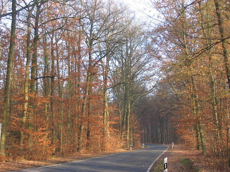 Street between Medewitz and Stackelitz (Saxony-Anhalt). The village Medewitz is a part of the municipality Wiesenburg (Mark) in the district Potsdam-Mittelmark of the German state Brandenburg. Benken appertains to the nature park Naturpark Hoher Fläming.